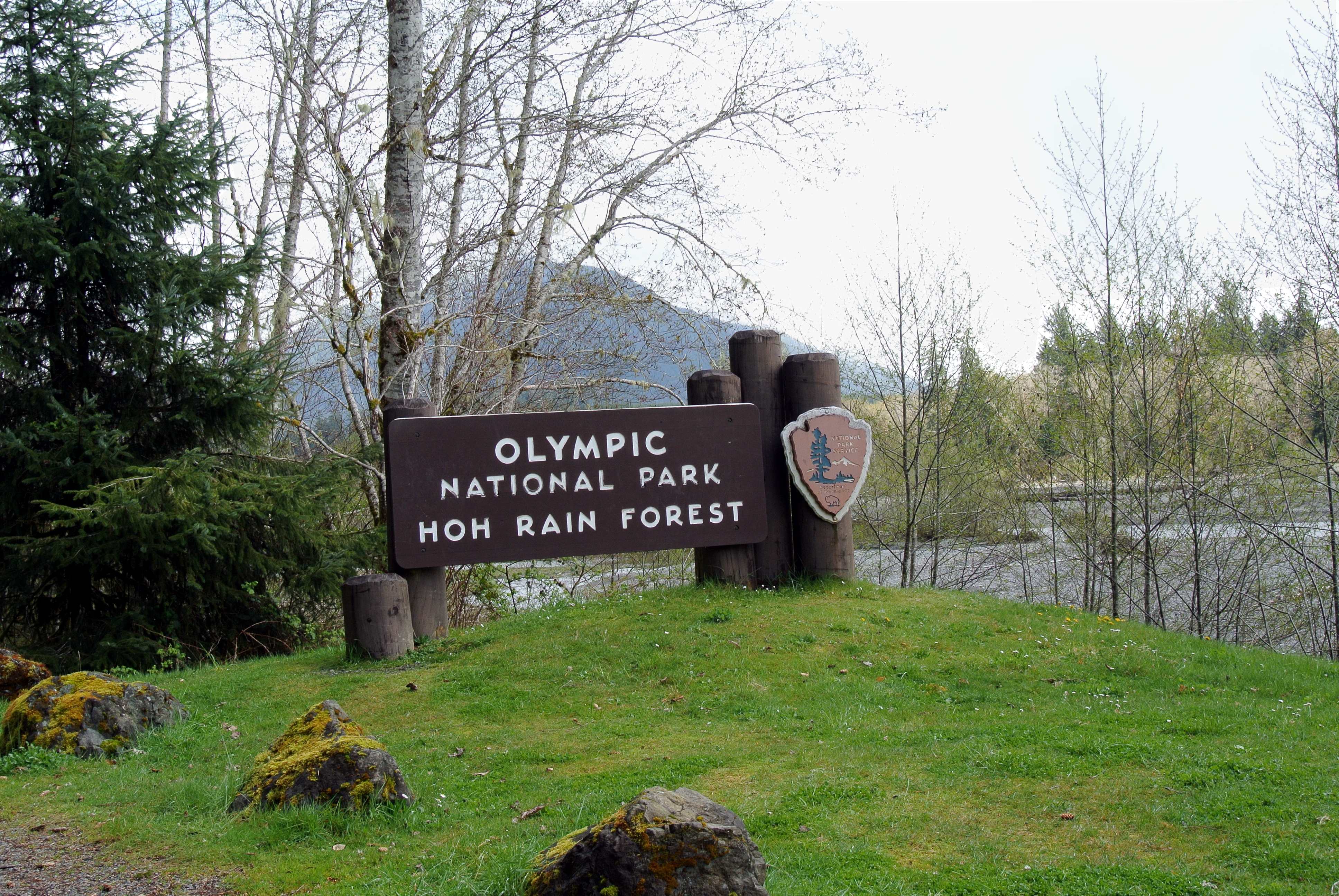 National Park Service Sign at the entrance of Hoh Rain Forest, Olympic National Park, Washington. Nikon 1 V1 + 1 Nikkor VR 10-30mm f/3.5-5.6